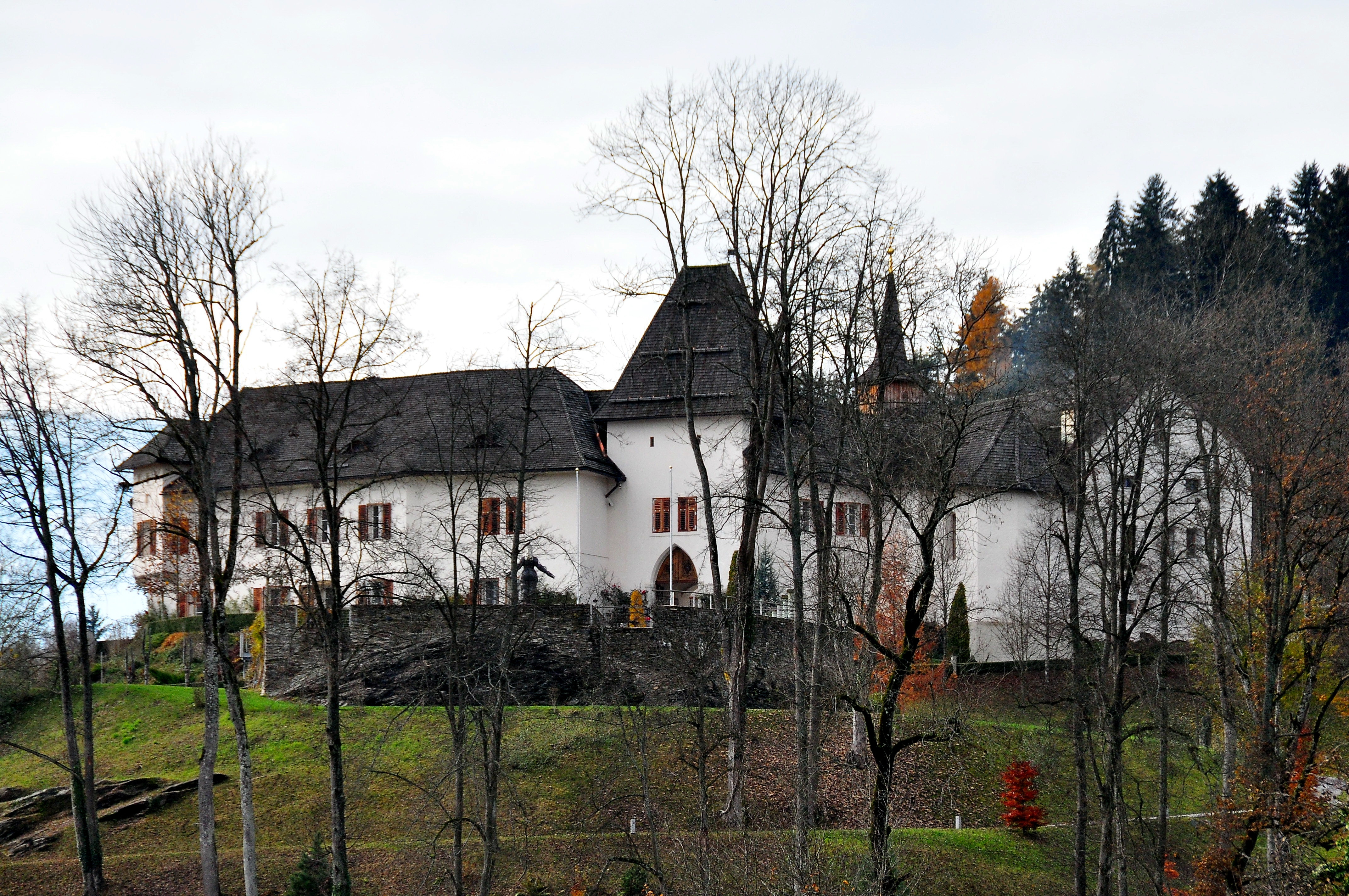 East view at Castle Seltenheim in the 14th district “Wölfnitz” of the Carinthian capital Klagenfurt on the Lake Woerth, Carinthia, Austria